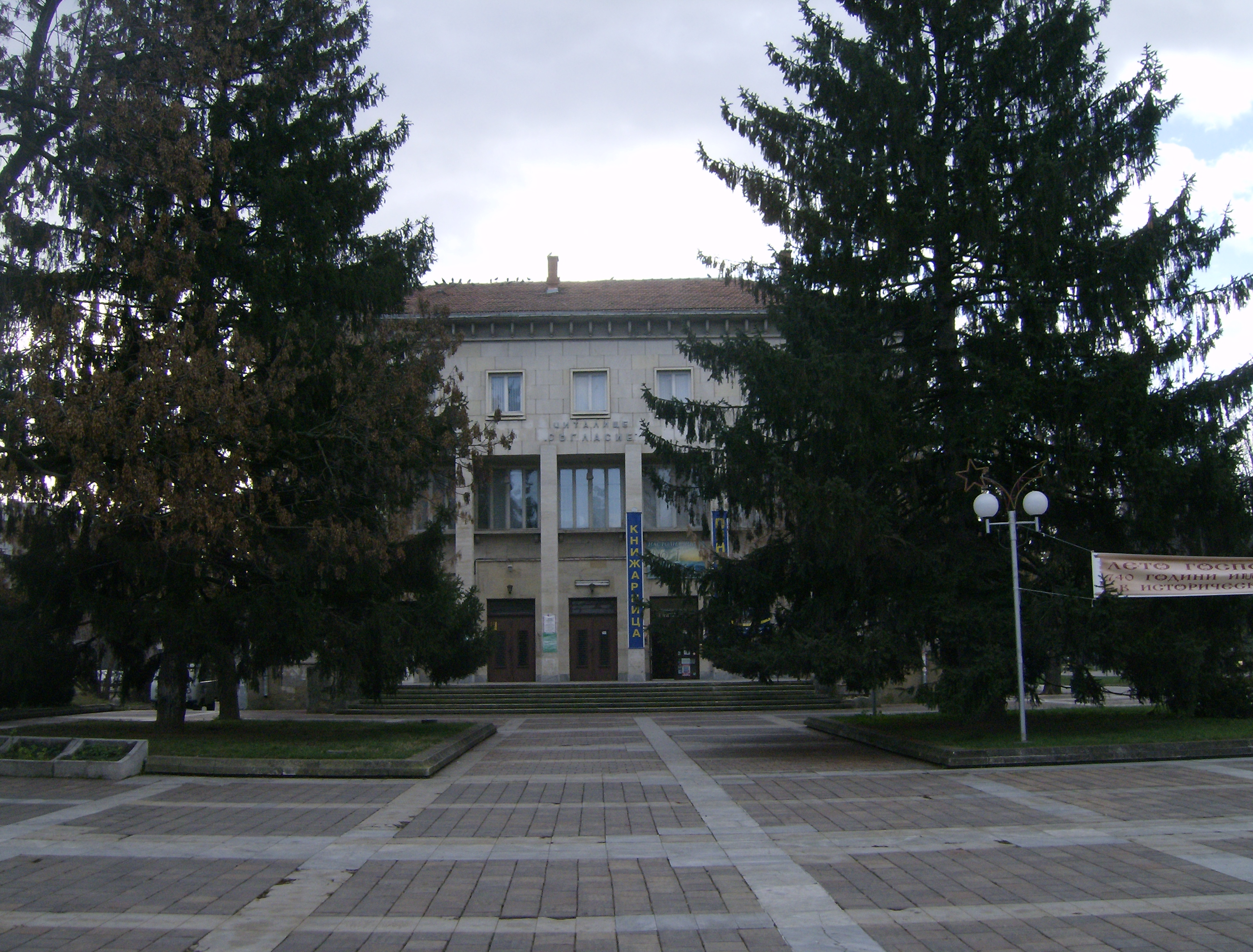 Chitalishte Saglasie 1869